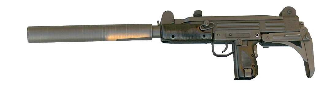 Uzi submachine gun with silencer